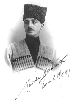 Bammatov Gaidar Nazhmutdinovich (Gaidar Bammat, Hayder Bammat, Haider Bammat) was born on October 20, 1889 in the village of Kafir-Kumukh Temir-khan-Shurinsky district, Dagestan region. Died March 31, 1965 in Paris France, by nationality Kumyk. Prominent politician of the first half of the XX century, Minister of Foreign Affairs of the Union of Mountaineers of the North Caucasus and Dagestan.